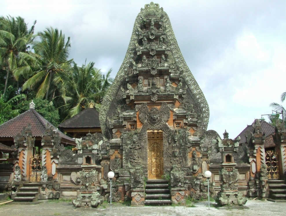 Candi kurung of Pura Dalem (lower temple) at Sidan, Sidan, Gianyar, Bali, Indonesia